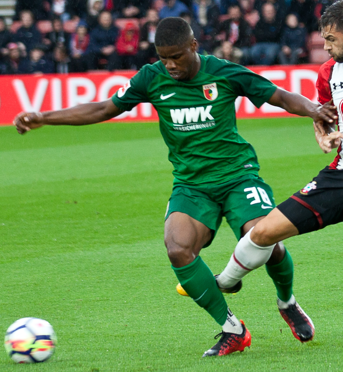 Pre-season friendly Wednesday 2 August 2017 Image by Steve Hogg